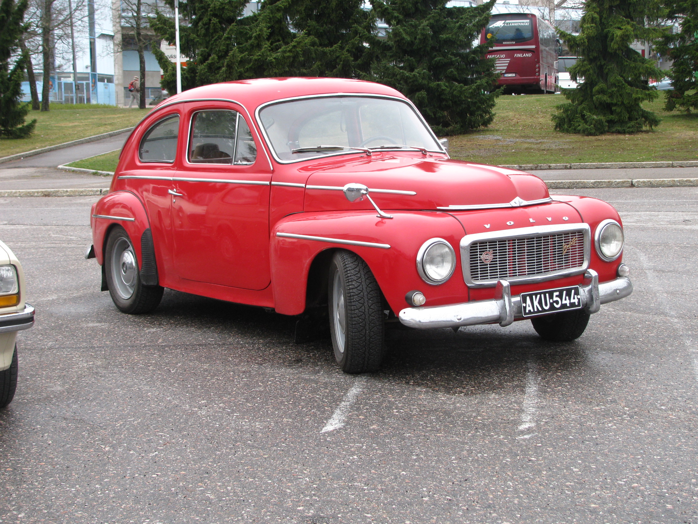 Volvo PV, Classic Motor Show parking lot in Lahti, Finland.